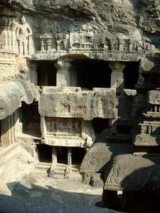 One of the Jain caves in the Ellora caves, India.